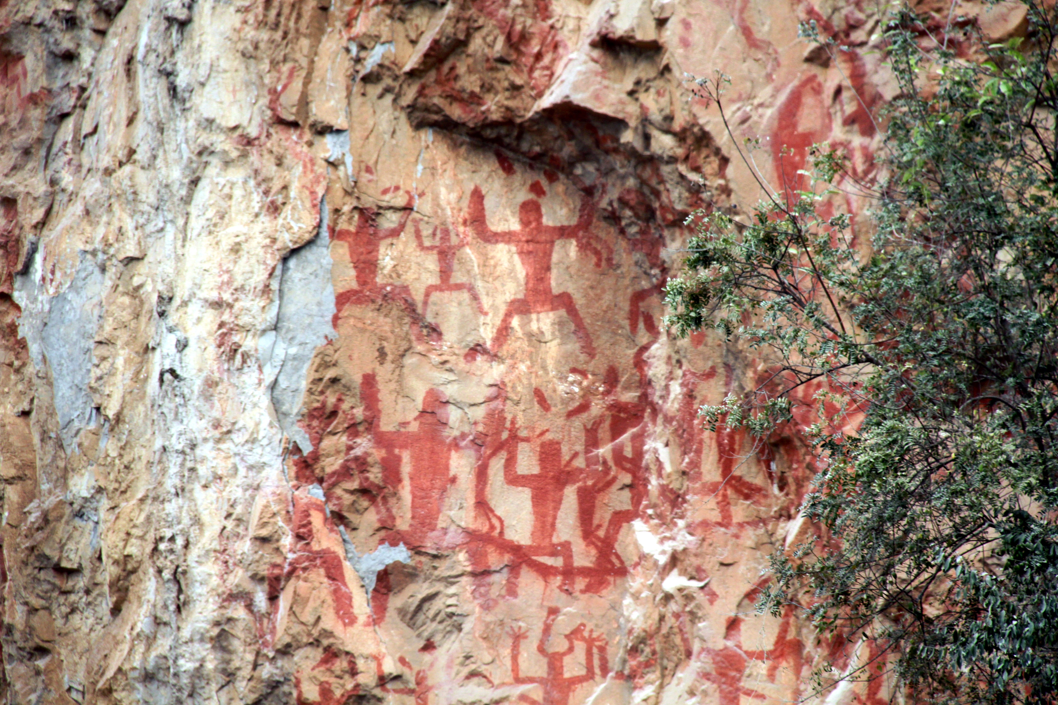 Photograph of the Rock Paintings of Hua Mountain. The paintings are located on a cliff face along the west bank of the Mingjiang River in Yaoda Town, Ningming County, Guangxi, China.